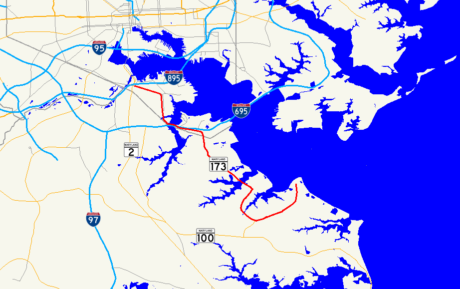 Map of Maryland Route 173